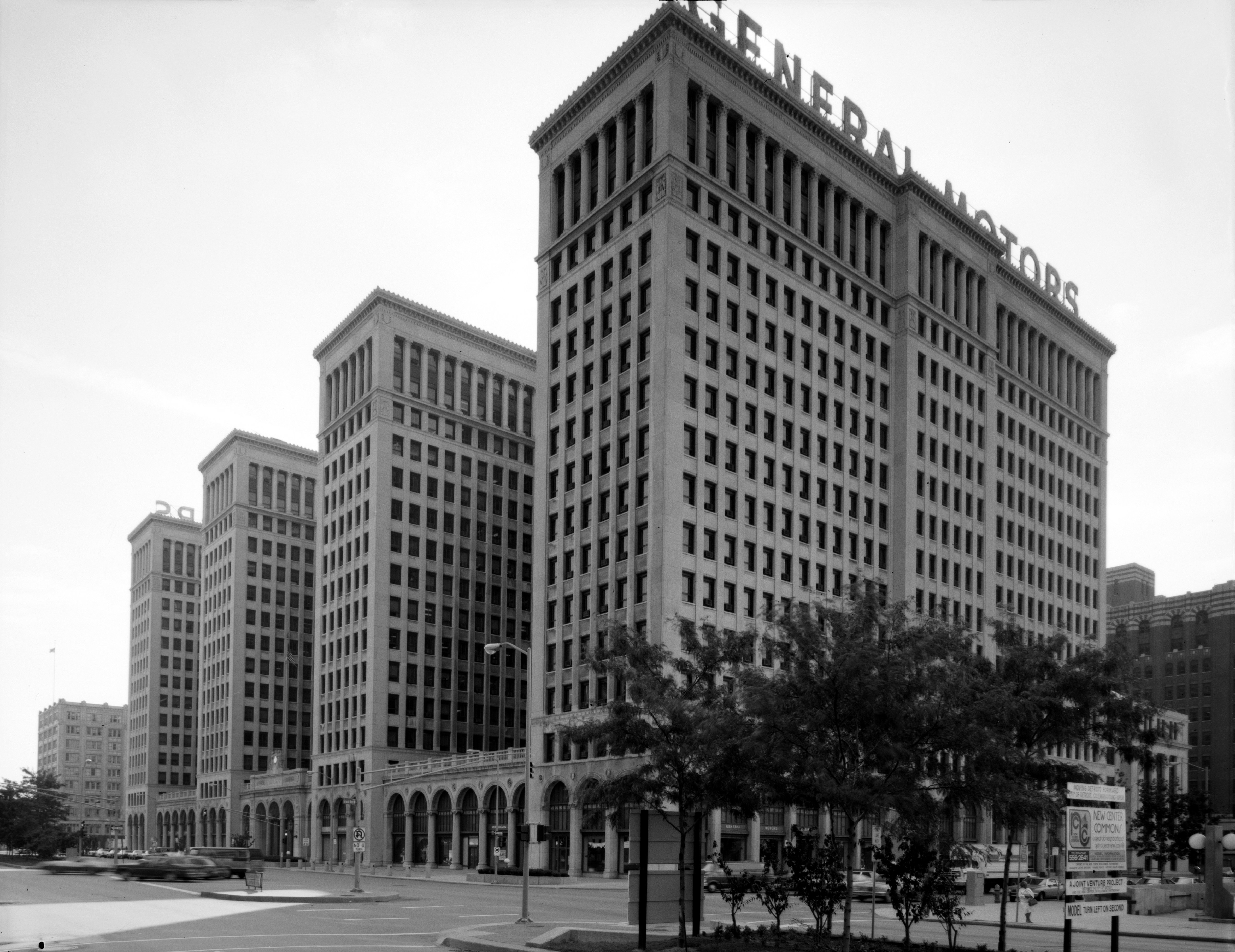 General Motors Building (Cadillac Place), View southeast showing north (front) and west elevations. Historic American Buildings Survey—HABS image (1981).